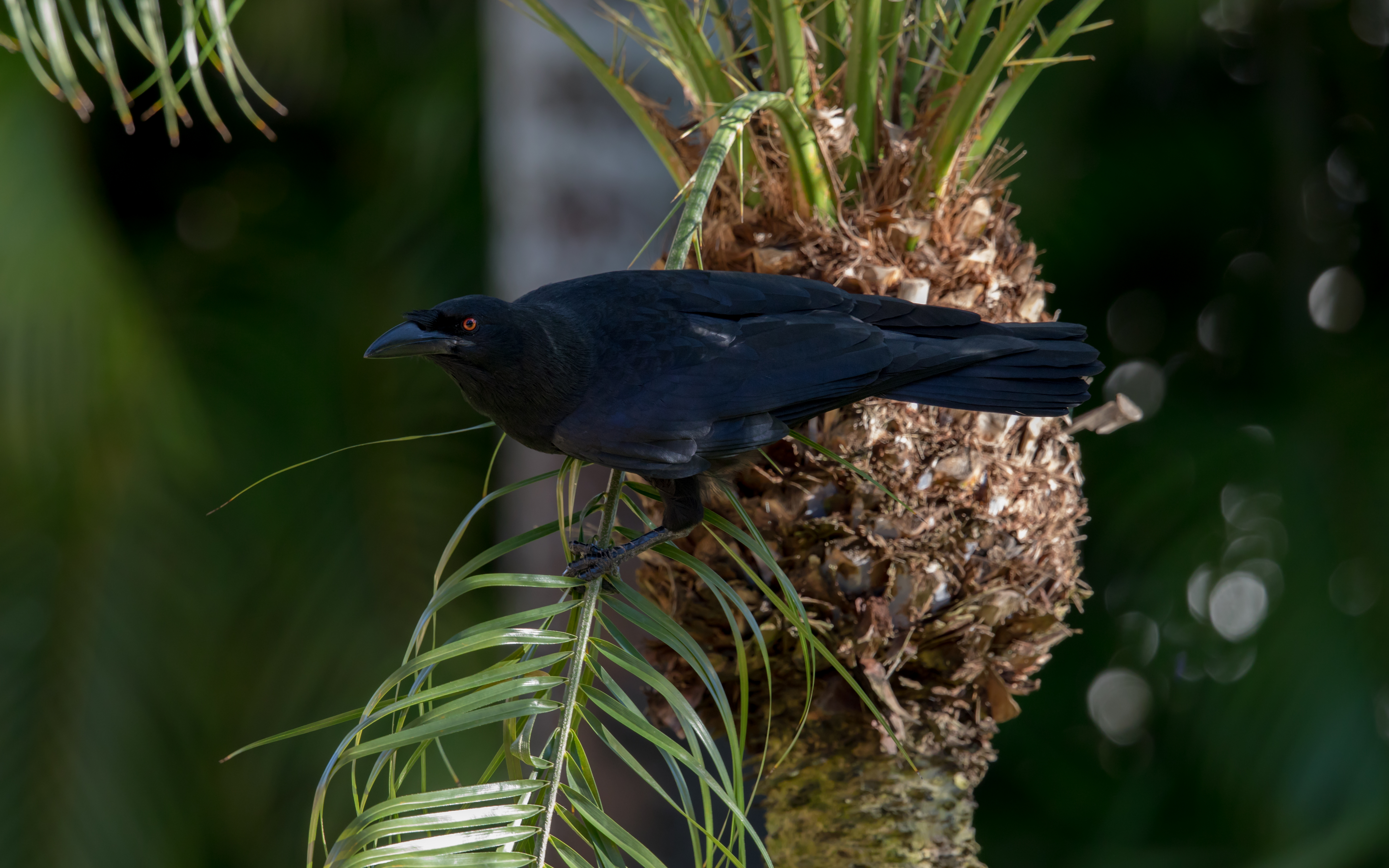 White-necked Crow near Bayahibe, Dominican Republic.